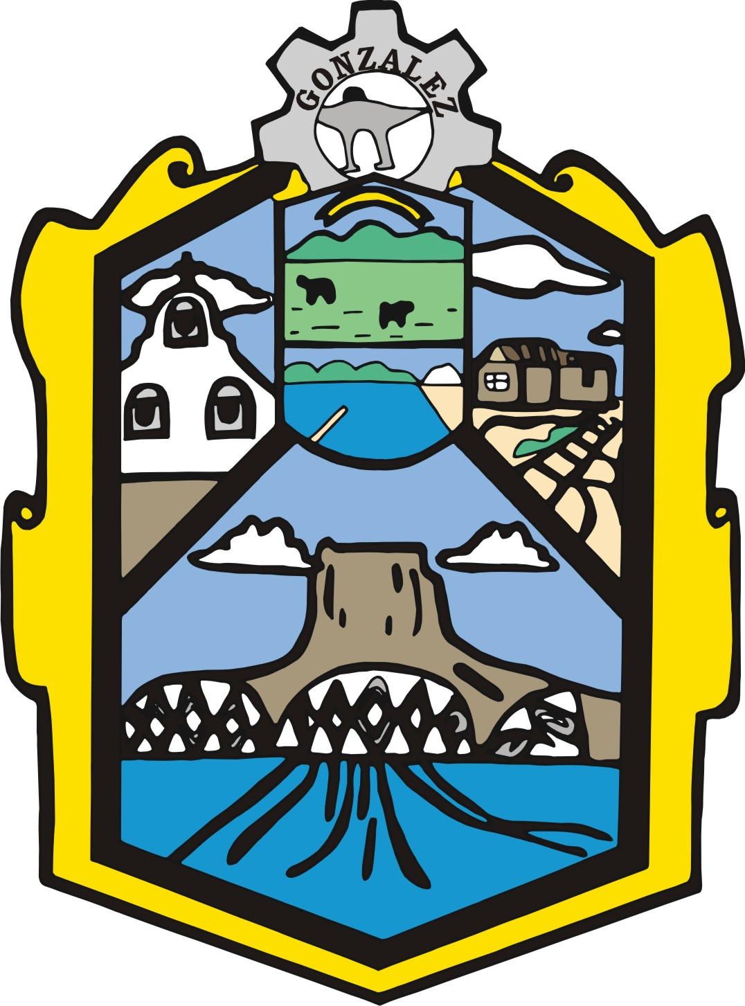 Coat of Gonzalez, Tamaulipas.